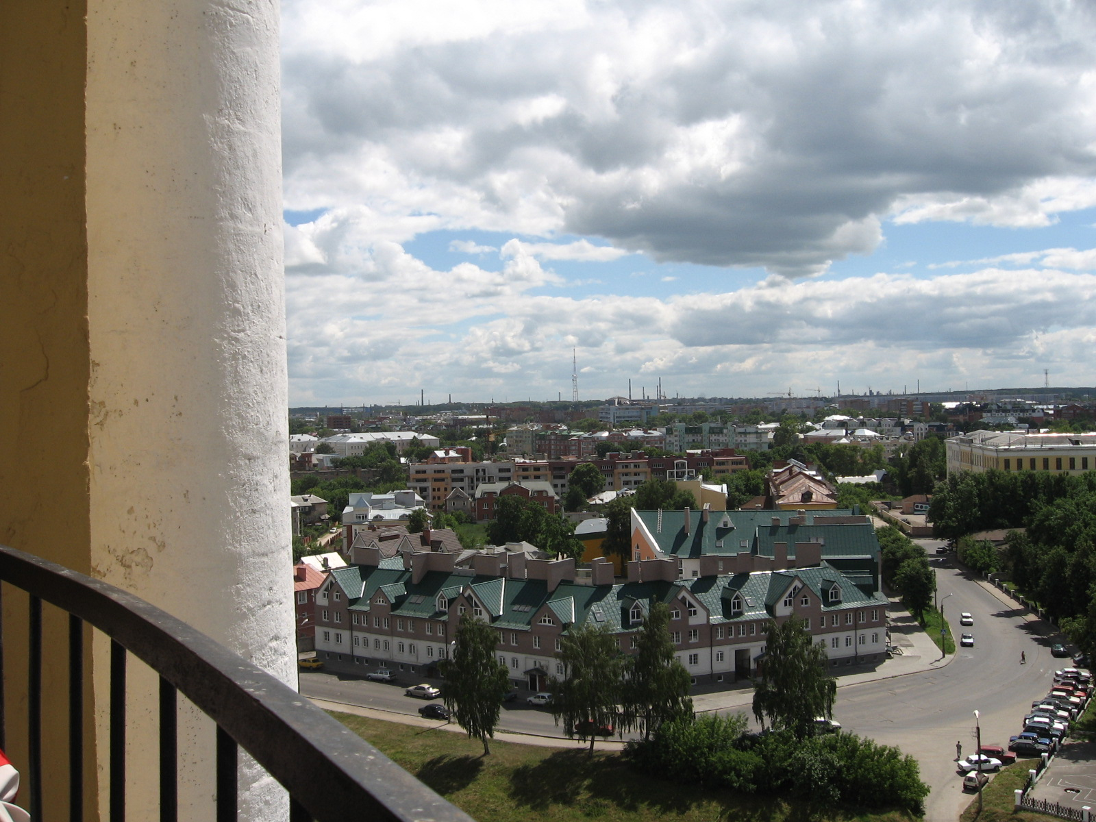 View from belltower. New residential area